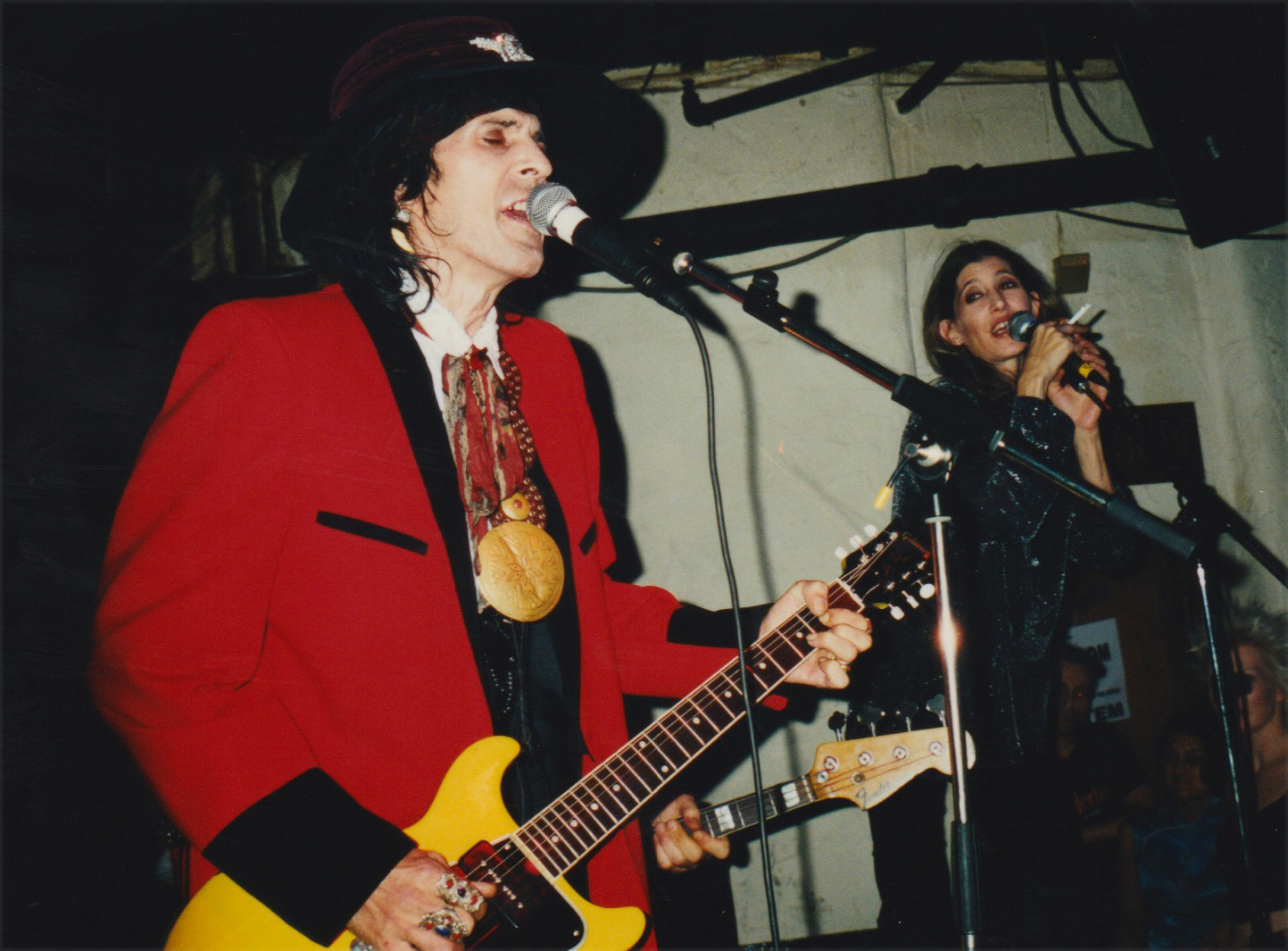 Andy McCoy - September 12, 2000 The Borderline, London